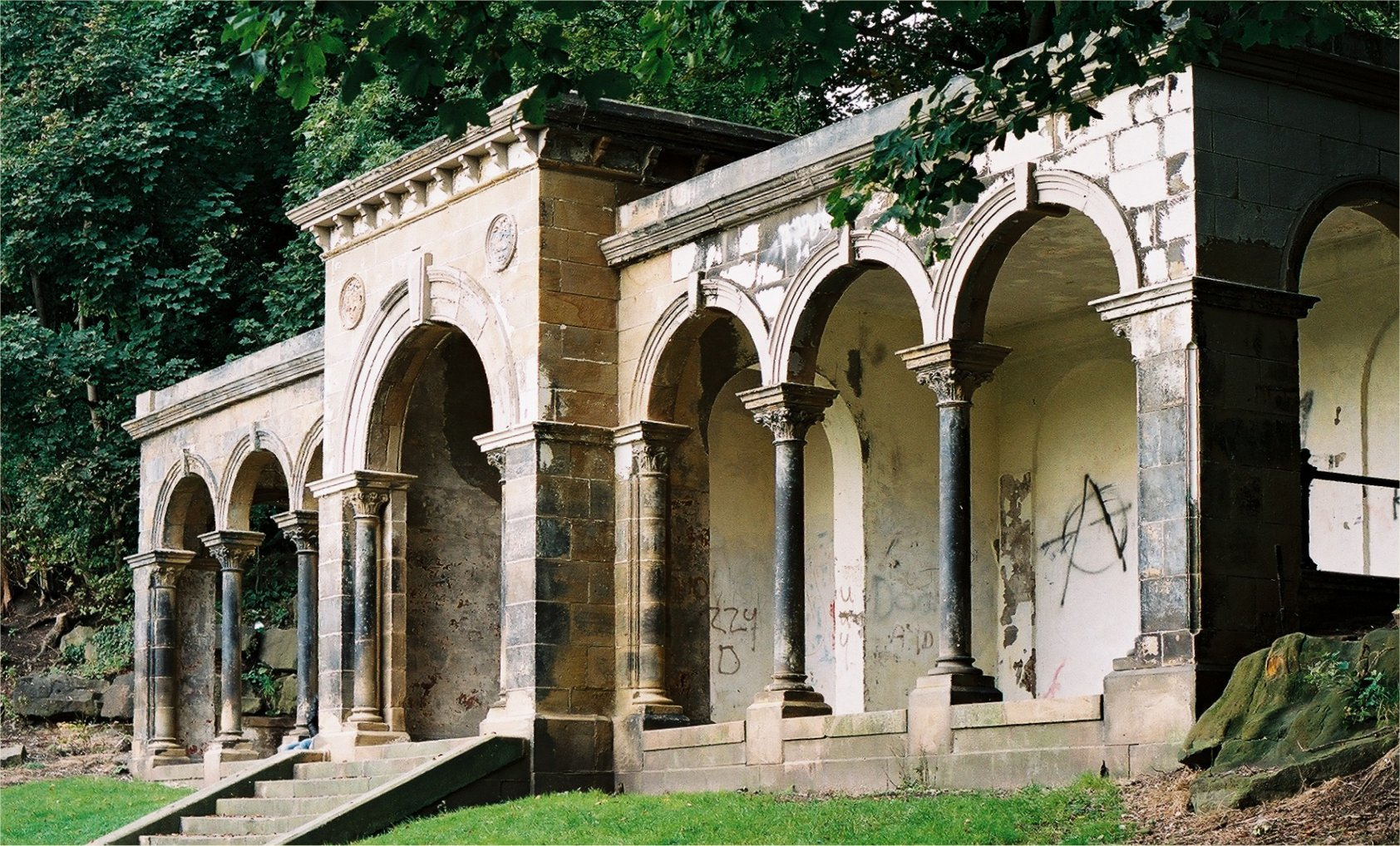 The Belvedere, in Avenham Park, Preston, Lancashire, England.